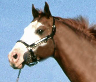 Picture of horse's head taken and edited by Malcolm Morley